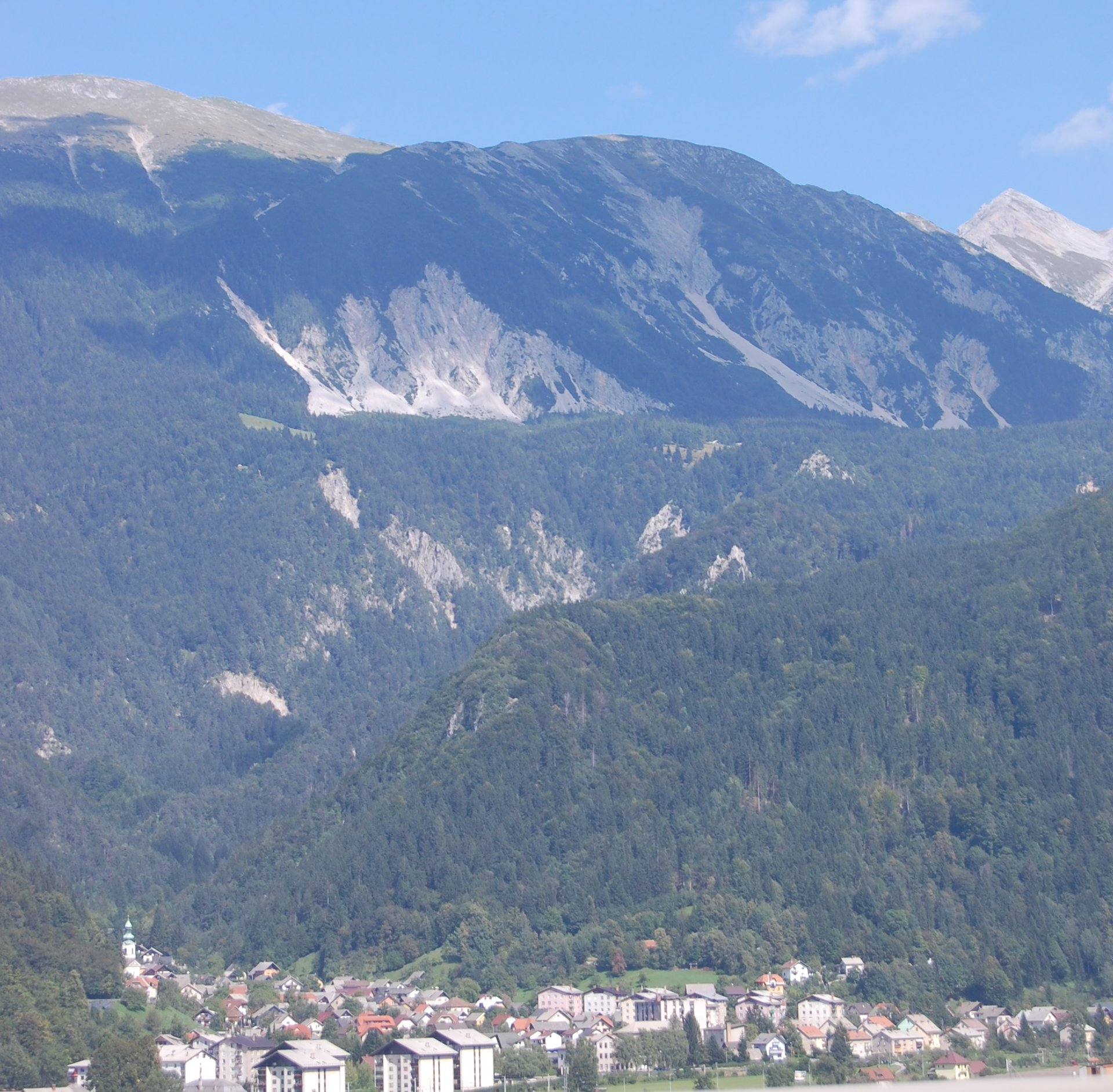 Koroška Bela and Karavanke in background.